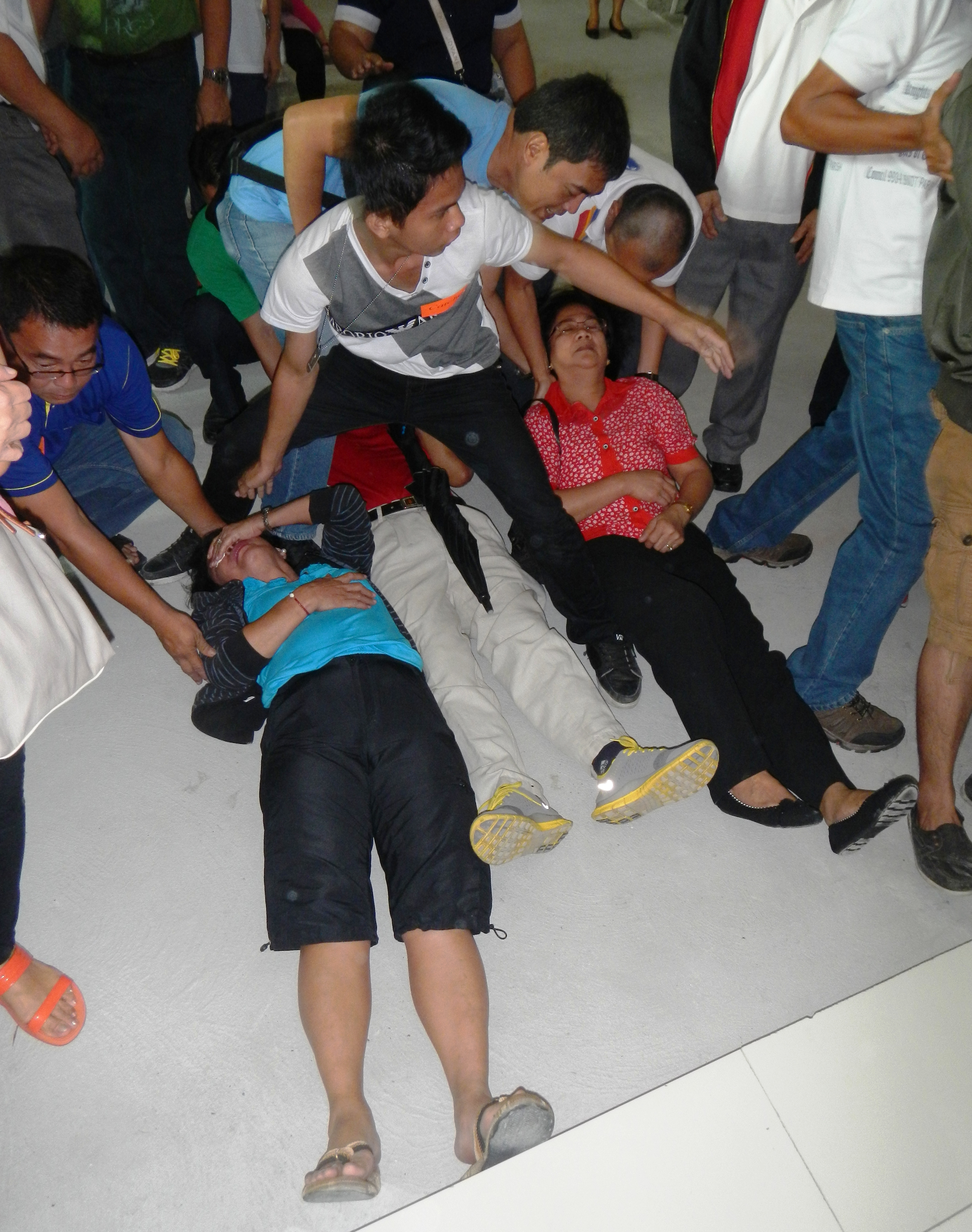 Photos of [Slain in the Spirit in the [Faith healing by Fr. Fernando Suarez healing the sick, the parishioners and ushers, aids of Fr. Suarez in the Santuario de San Vicente de Paul Shrine Parish Roman Catholic Diocese of Novaliches - founded in 2003 inside the St. Vincent Seminary Complex in 221 Tandang Sora Avenue, [Quezon City.